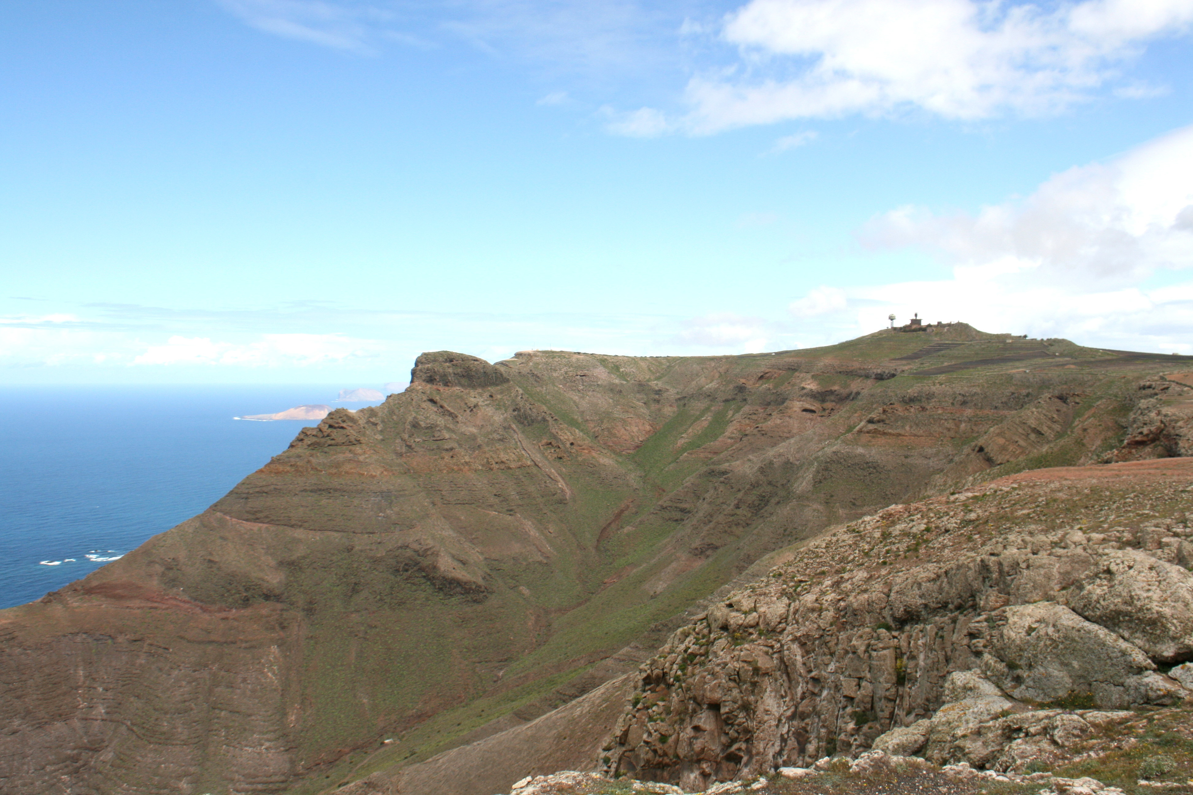 View from the Mirador de las Nieves in Teguise to volcano Peñas del Chache in Haría, Lanzarote, Canary Islands.